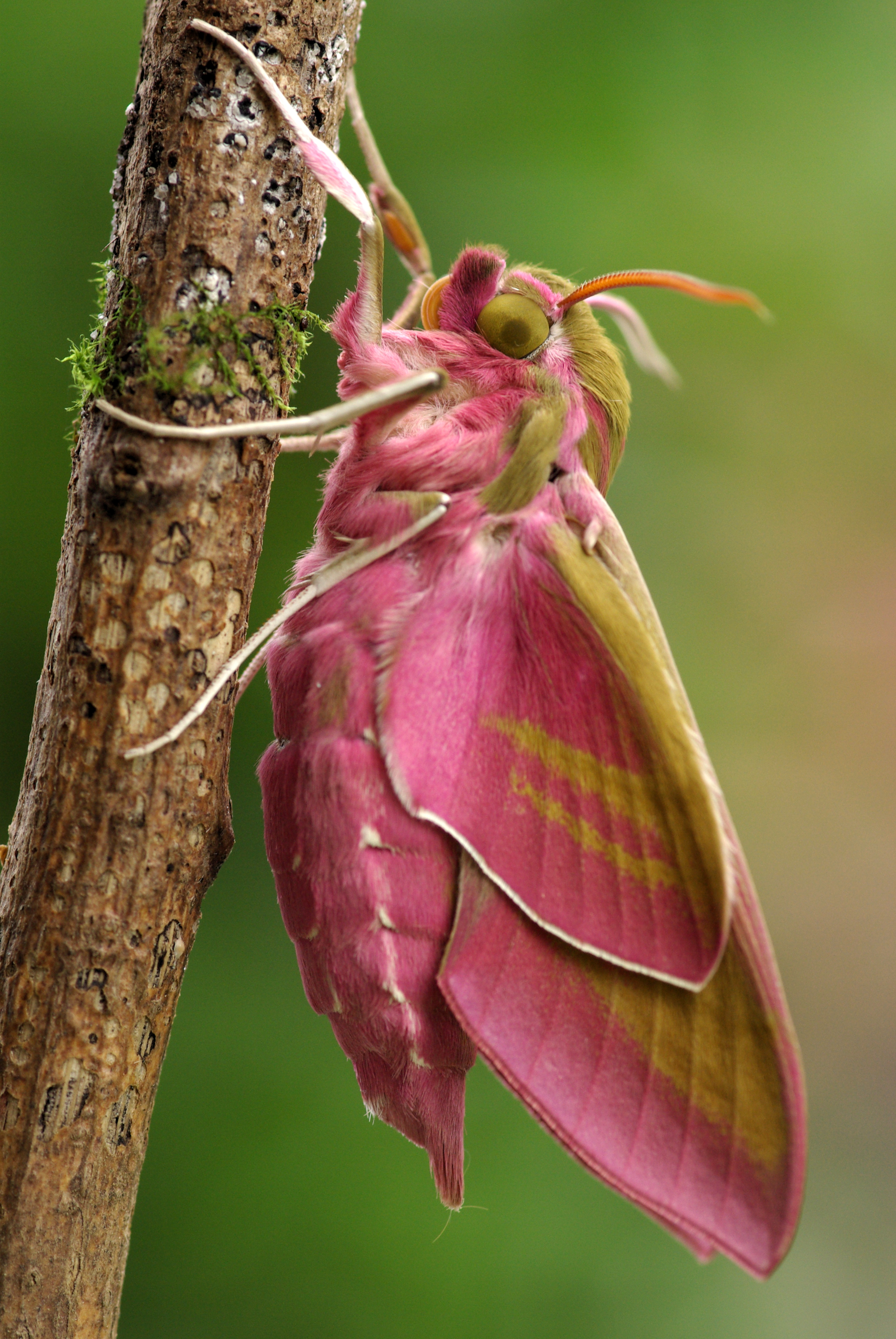 Deilephila elpenor is drying his wings before flight.